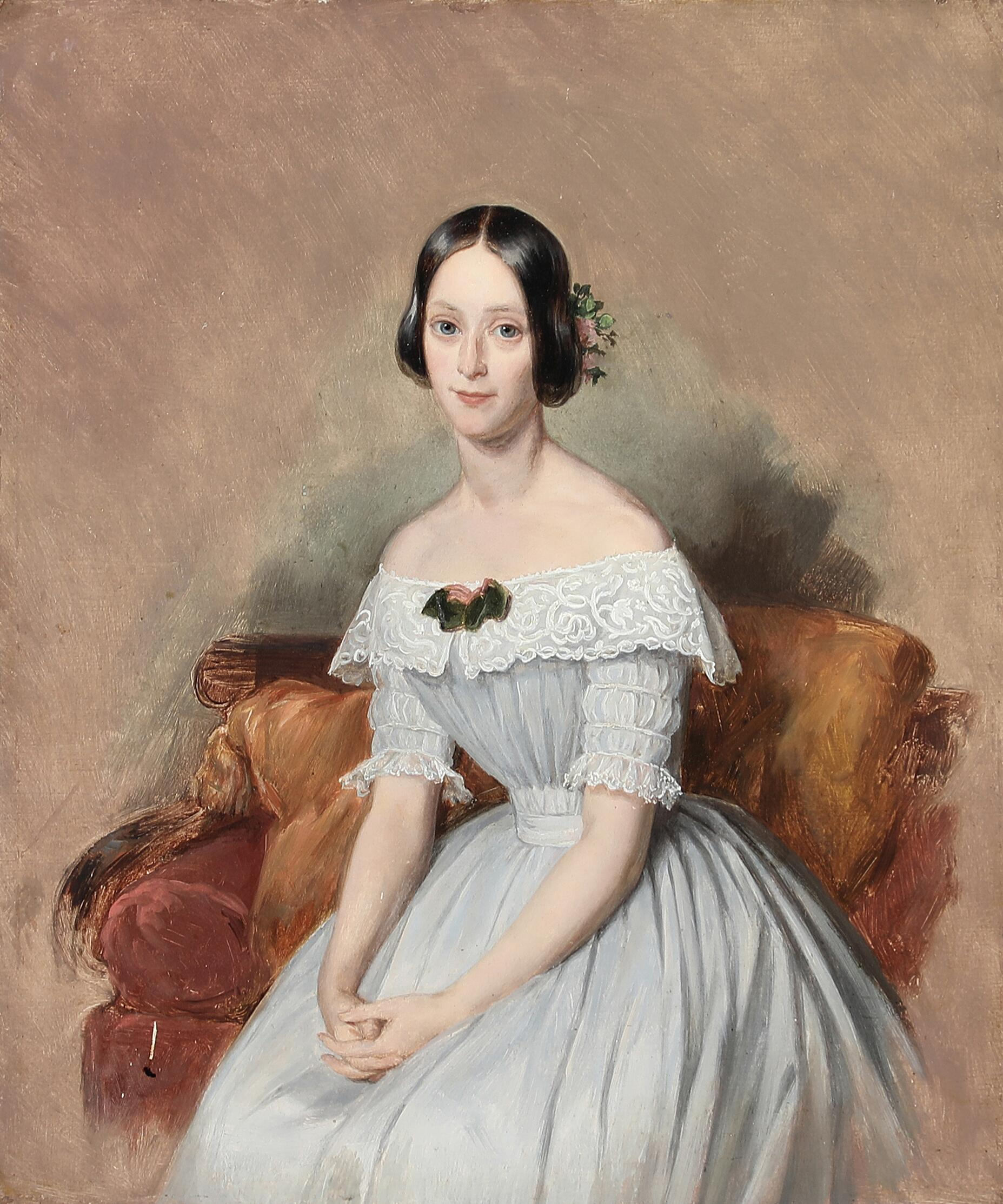 Augusta Nielsen by Edvard Lehmann. Teatermuseet.